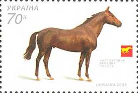 Stamps of Ukraine